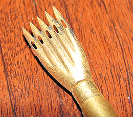 This is a single staff rastrum which is used to to draw the lines of a music staff. The tip is like a pen with five points which is dipped in ink in order to draw five lines with a single stroke.